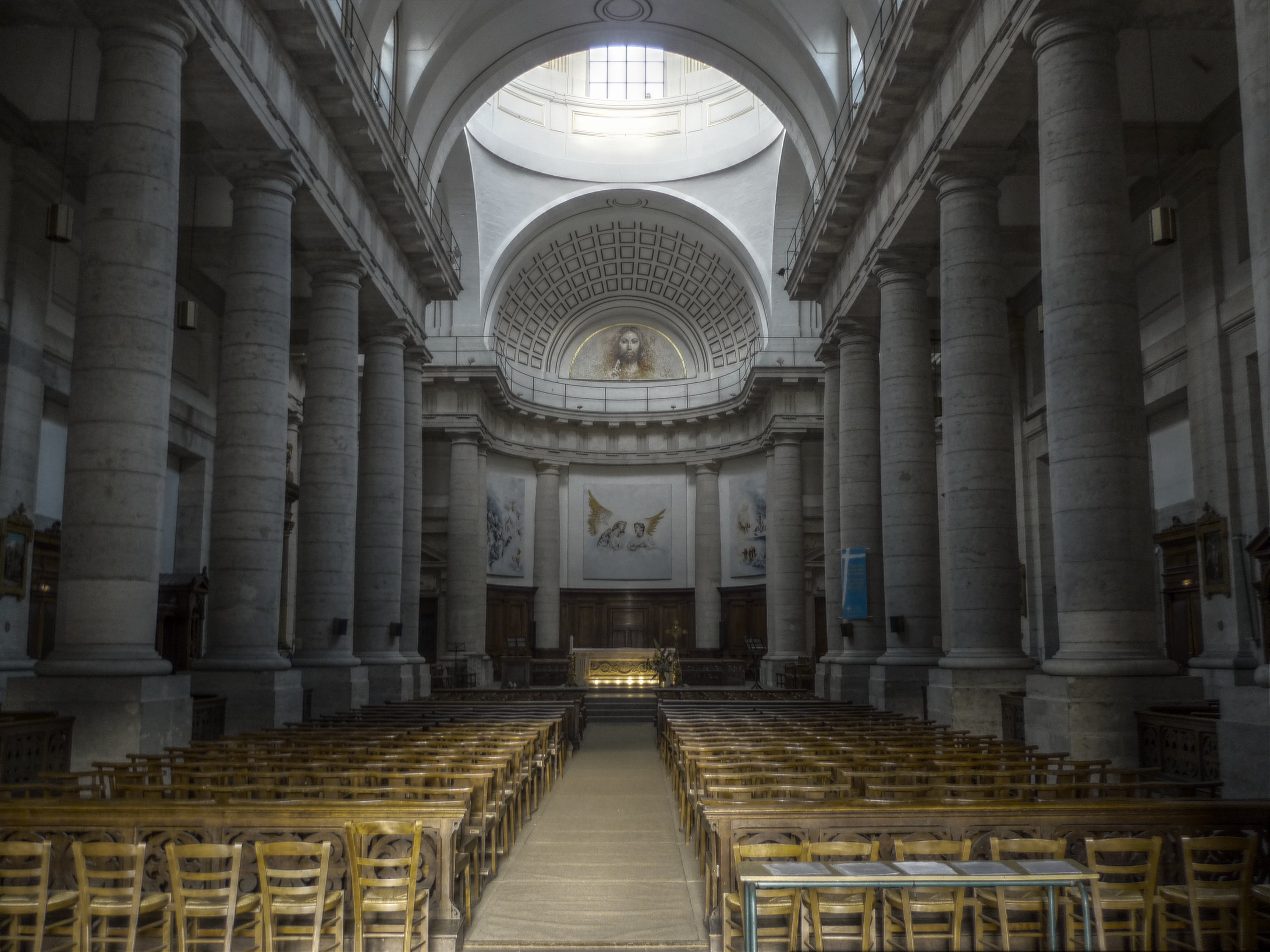 Church Notre Dame Saint-Vincent in Lyon, France